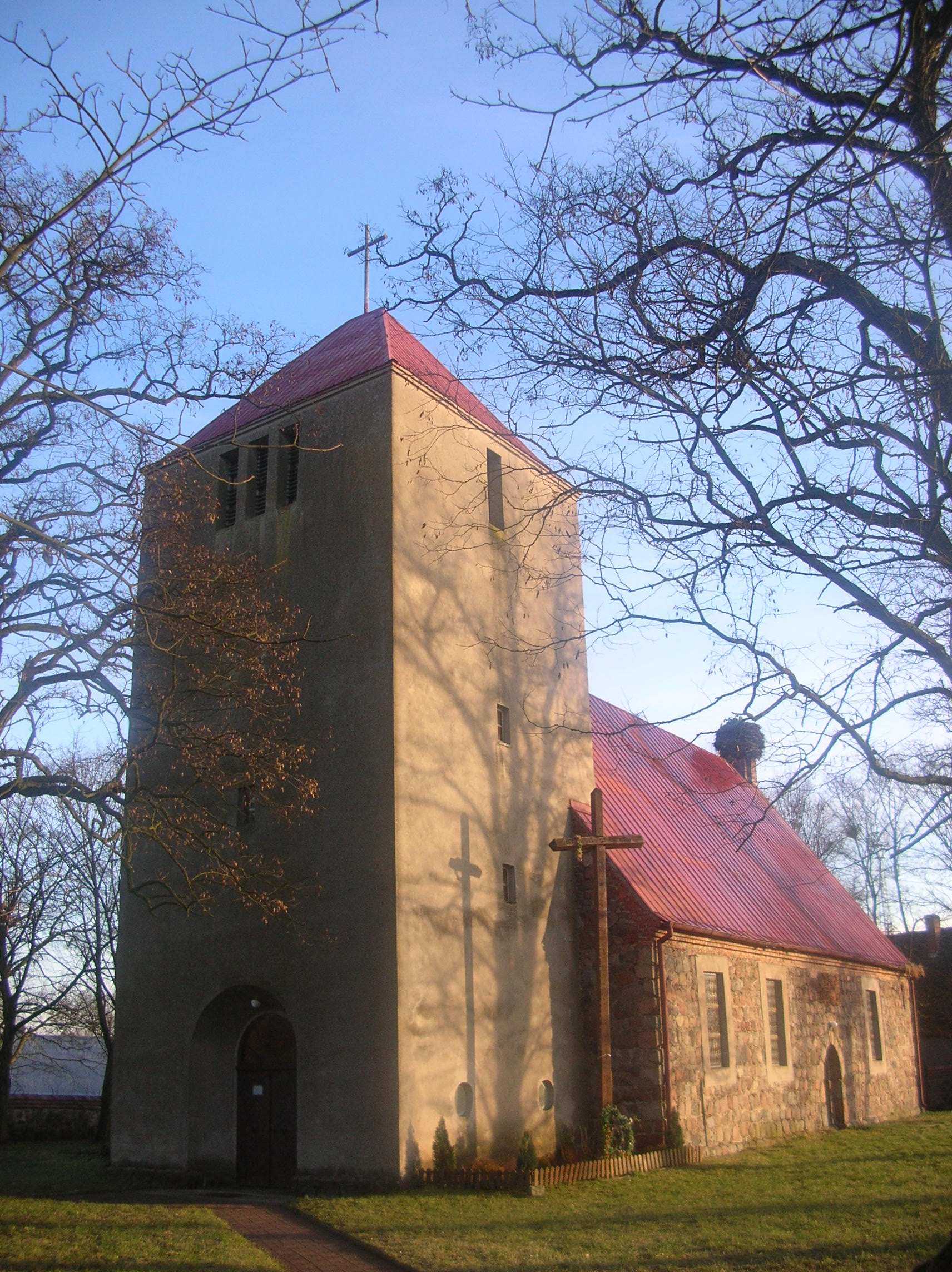 Church of Blessed Virgin Mary Mother of the Church in Żelisławiec near Gryfino